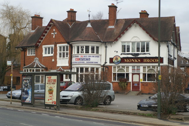 Monks Brook public house.